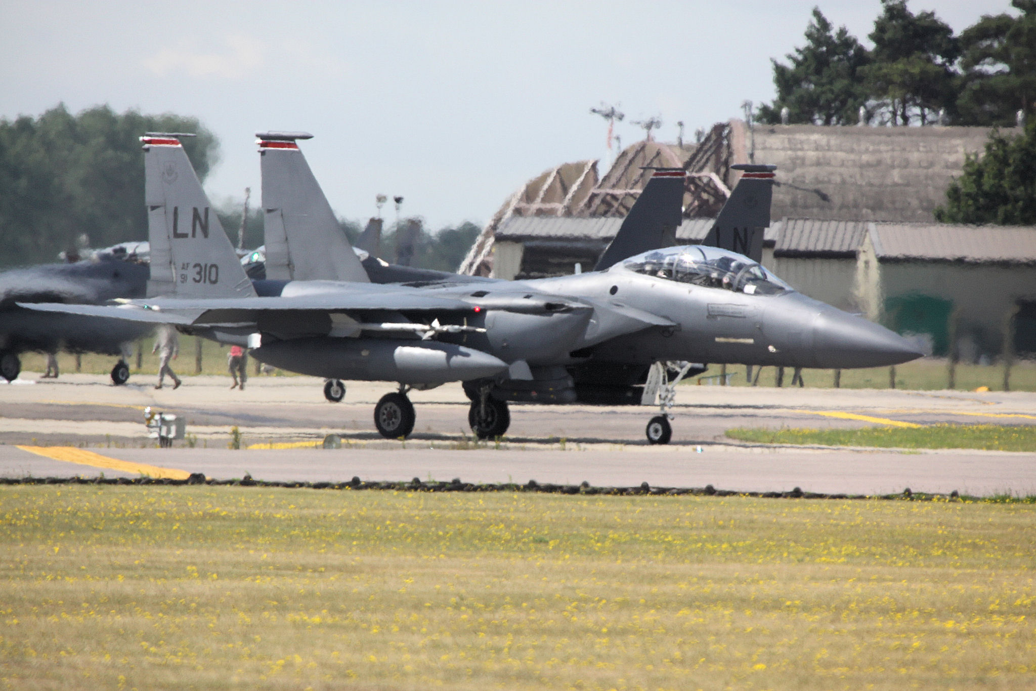 F15 Eagle - RAF Lakenheath July 2009